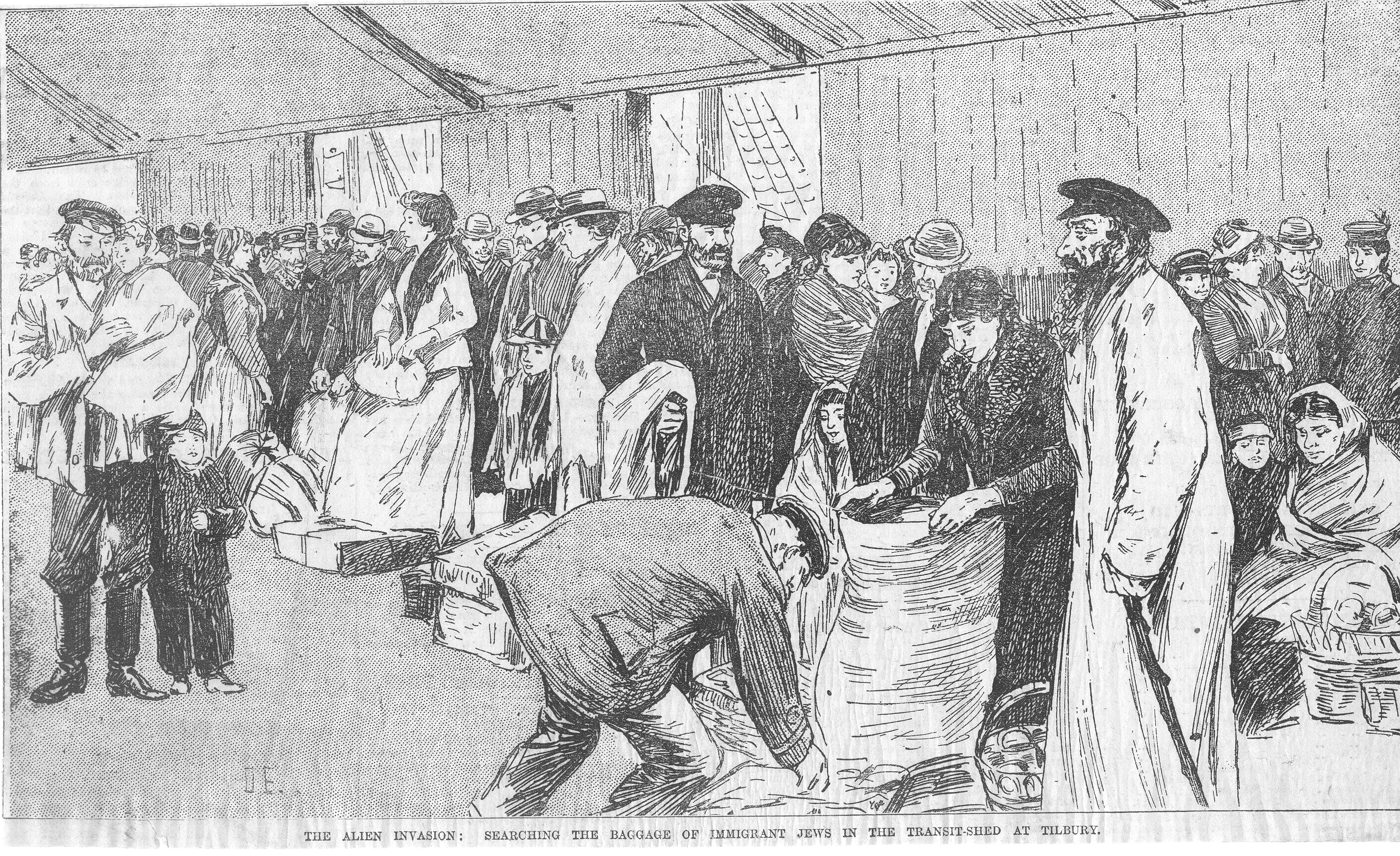 Russian and Polish Jews soughting refuge in Britain. This illustration is captioned "The Alien Invasion: Searching the baggage of immigrant Jews in the Transit Shed at Tilbury" (circa 1891).